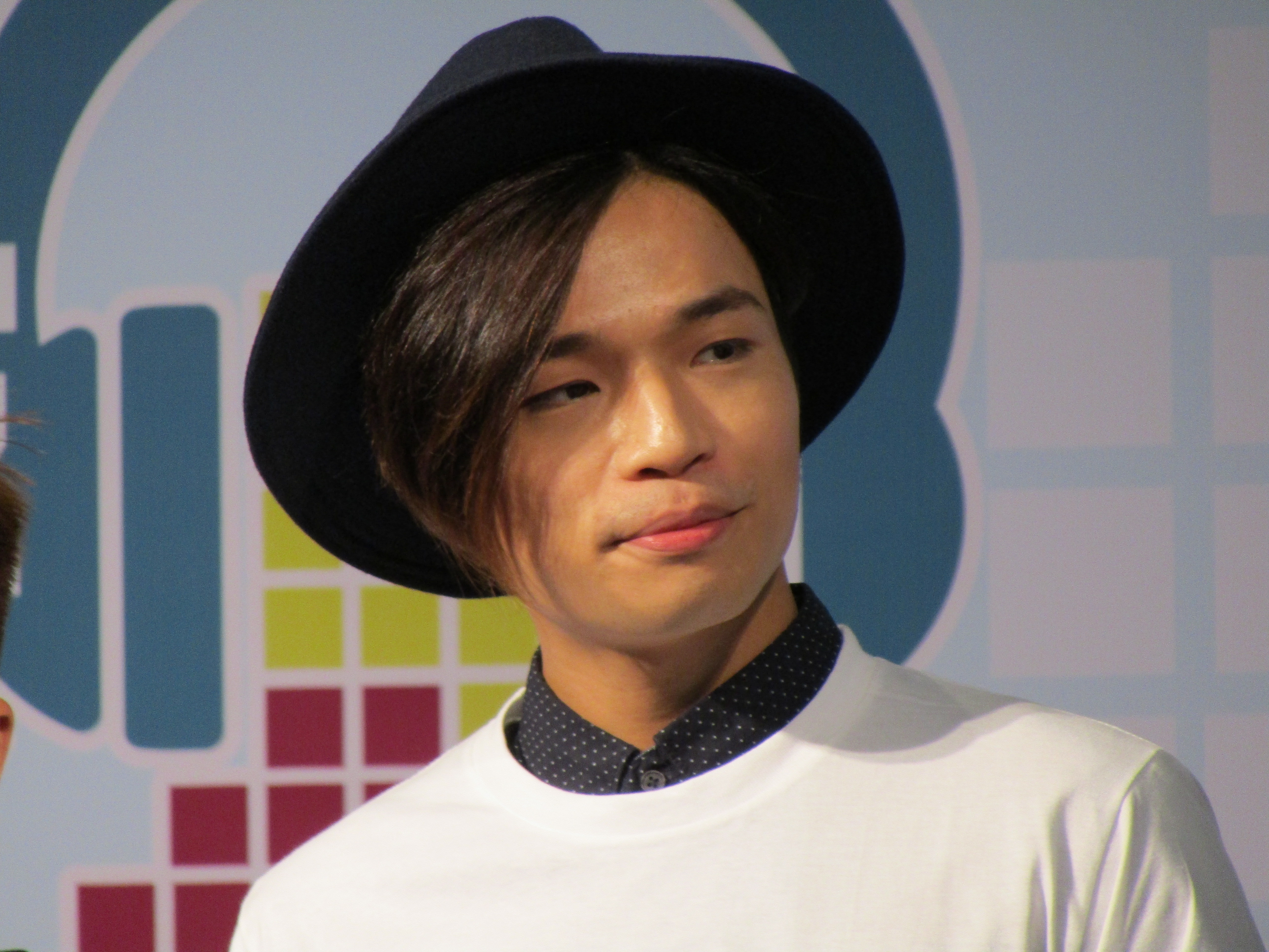 Sean Pang is singing at Wonderful Worlds of Whampoa, Hung Hom